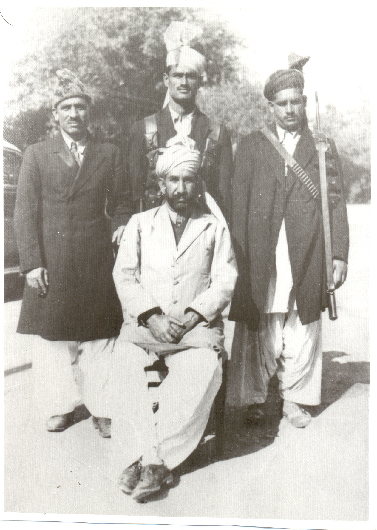 Sitting: Nawabzada Mohammad Ismail Khan Of Amb State).